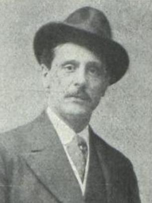 Bilbao blowup